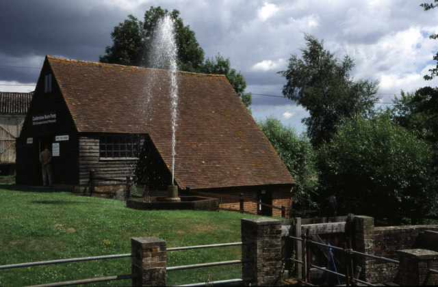 Coultershaw beam pump From a different angle on a working day. The fountain is the pump output. This then flows down the slope and actuates an hydraulic ram, thus demonstrating another form of pumping technology (a source of perpetual wonderment to many). The pump is a waterwheel driven three throw pump with the motion passing via long wooden beams. This supplied water to Petworth House